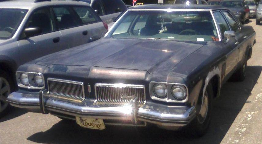 1973 Oldsmobile Delta 88 photographed in Montreal, Quebec, Canada.